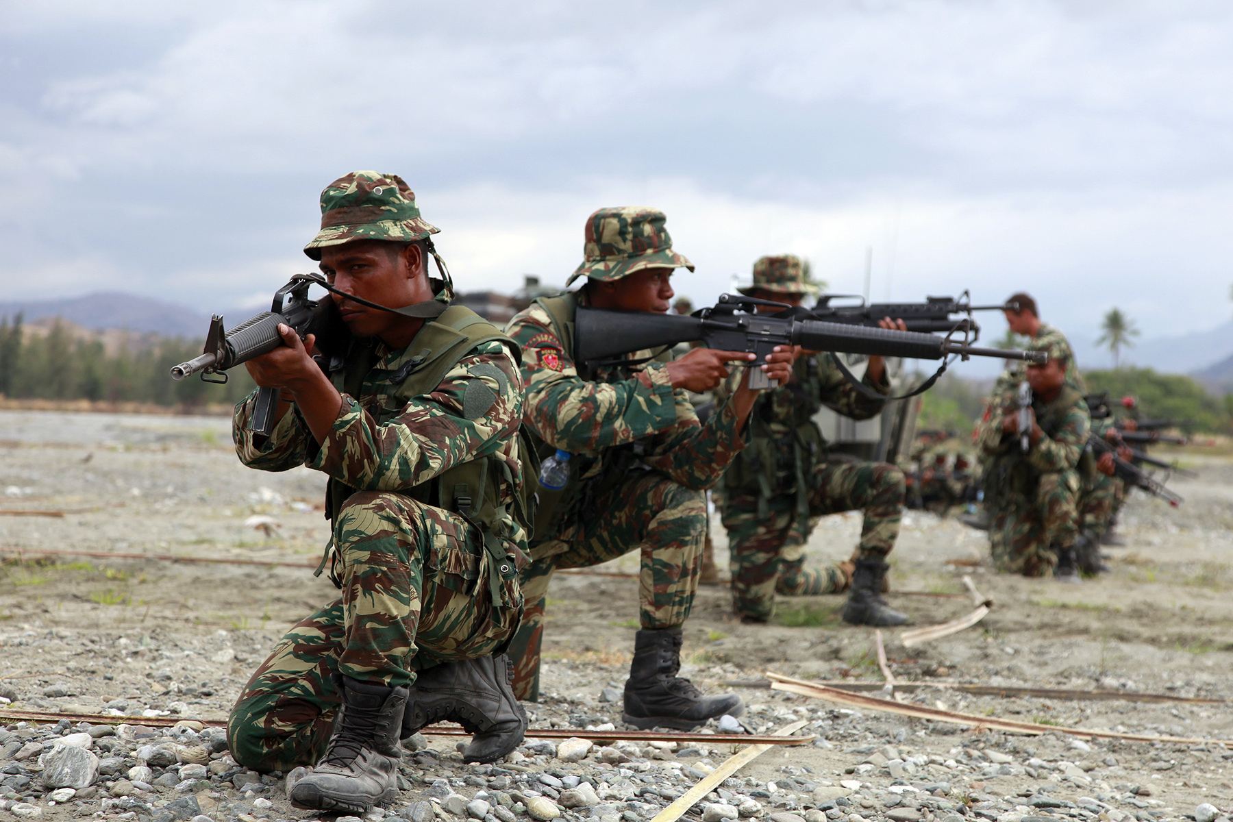 Soldiers with the Timor-Leste Defense Force practice their infantry tactics the evening before the conduct of a raid with India Company, Battalion Landing Team 3/5, 15th Marine Expeditionary Unit, as part of Exercise Crocodilo 2012, Oct. 12. Crocodilo12 serves as the first exercise scheduled during the MEU's deployment that began on Sept. 17. Throughout the exercise, forces will participate in various events to include field exercises and community relations activities aimed at strengthening the relationship between the US and Timor-Leste. The 15th MEU is currently embarked as part of the Peleliu Amphibious Ready Group, while they serve as the nation's rapid-response sea-based Marine Air Ground Task Force for Western Pacific Deployment 12-02.